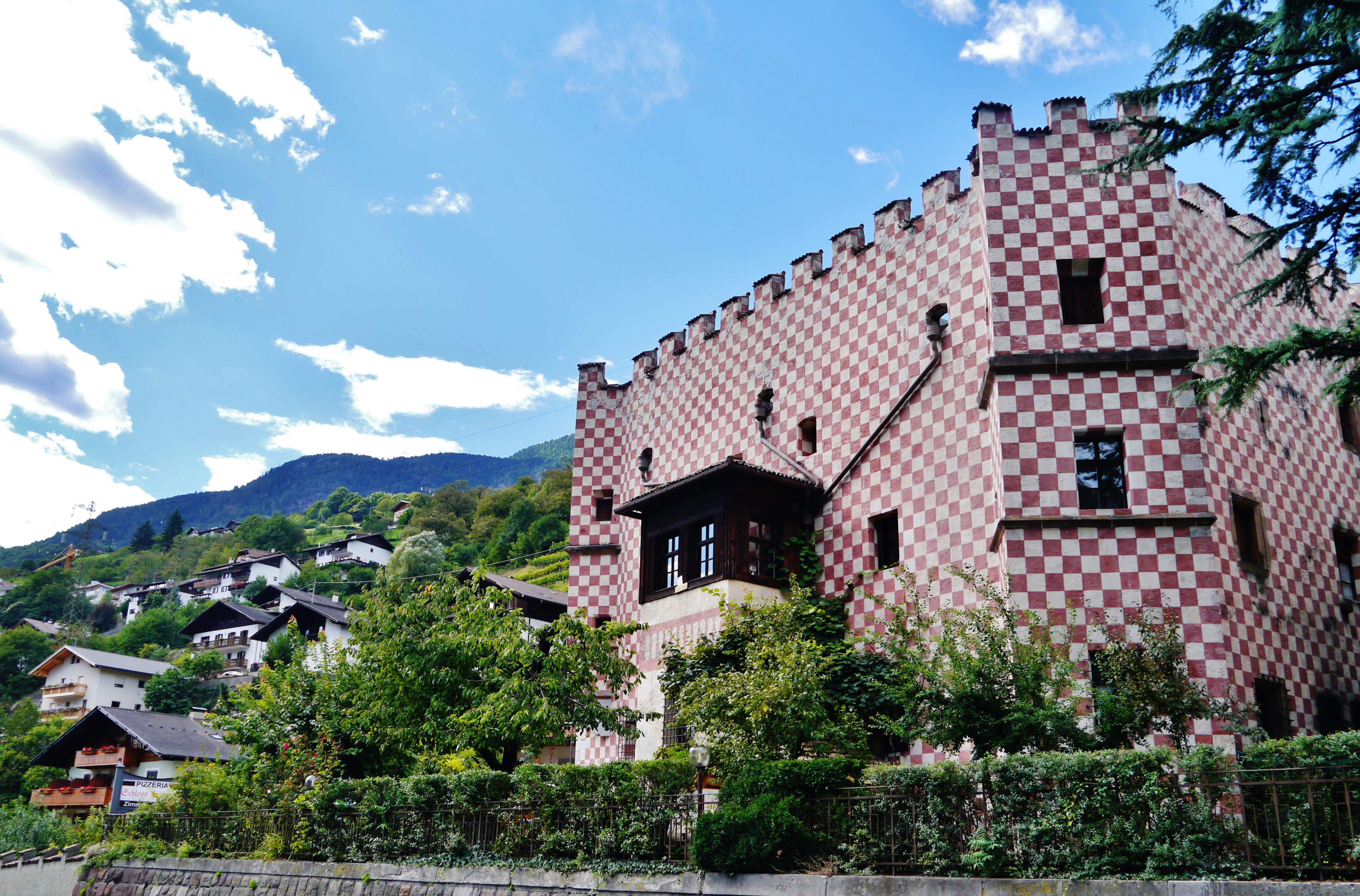 Kollmann Toll House, Barbiano, Province of Bolzano (South Tyrol), Region of Trentino-Alto Adige/Südtirol, Italy